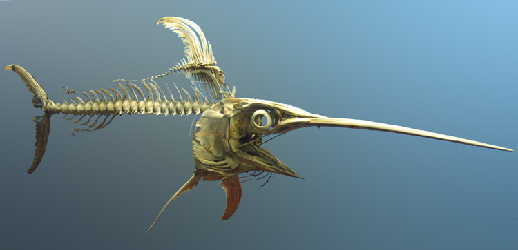 Swordfish (Xiphias gladius) skeleton at the National Museum of Natural History, Washington, DC; digital photo and removal of background by User:Postdlf.